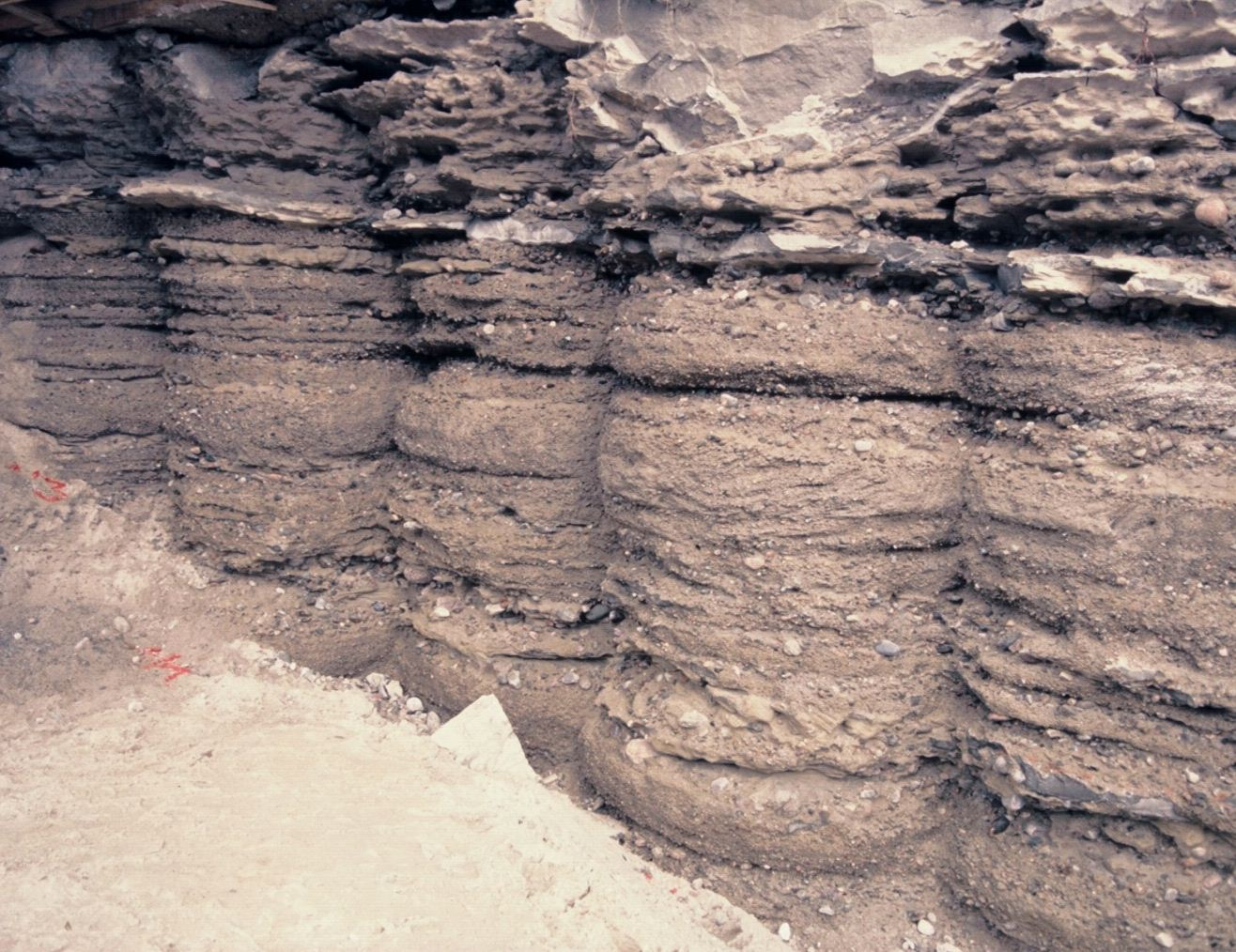 Jetpeler